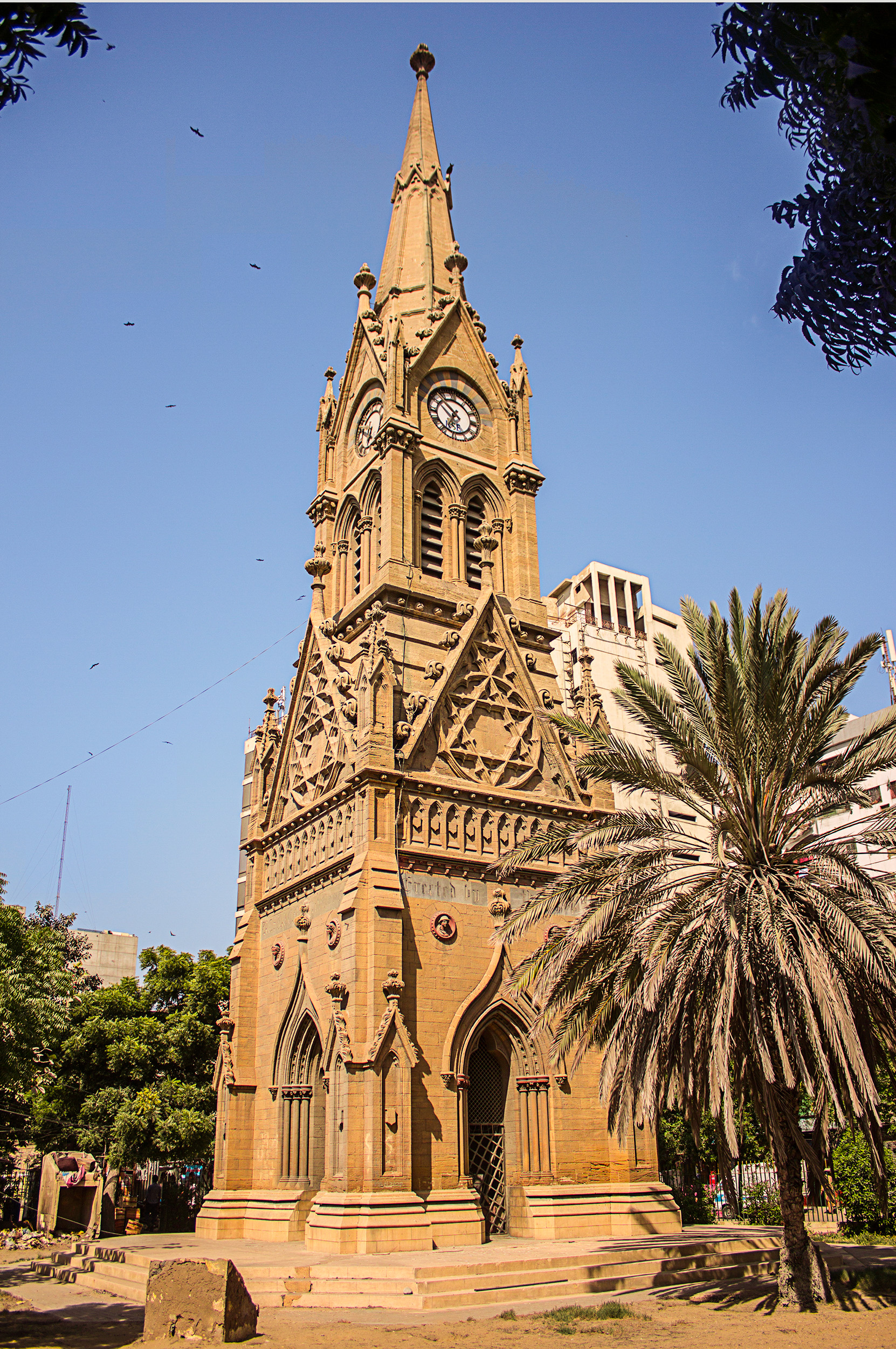 Merewether Clock Tower This is a photo of a monument in Pakistan identified as the SD-P-20